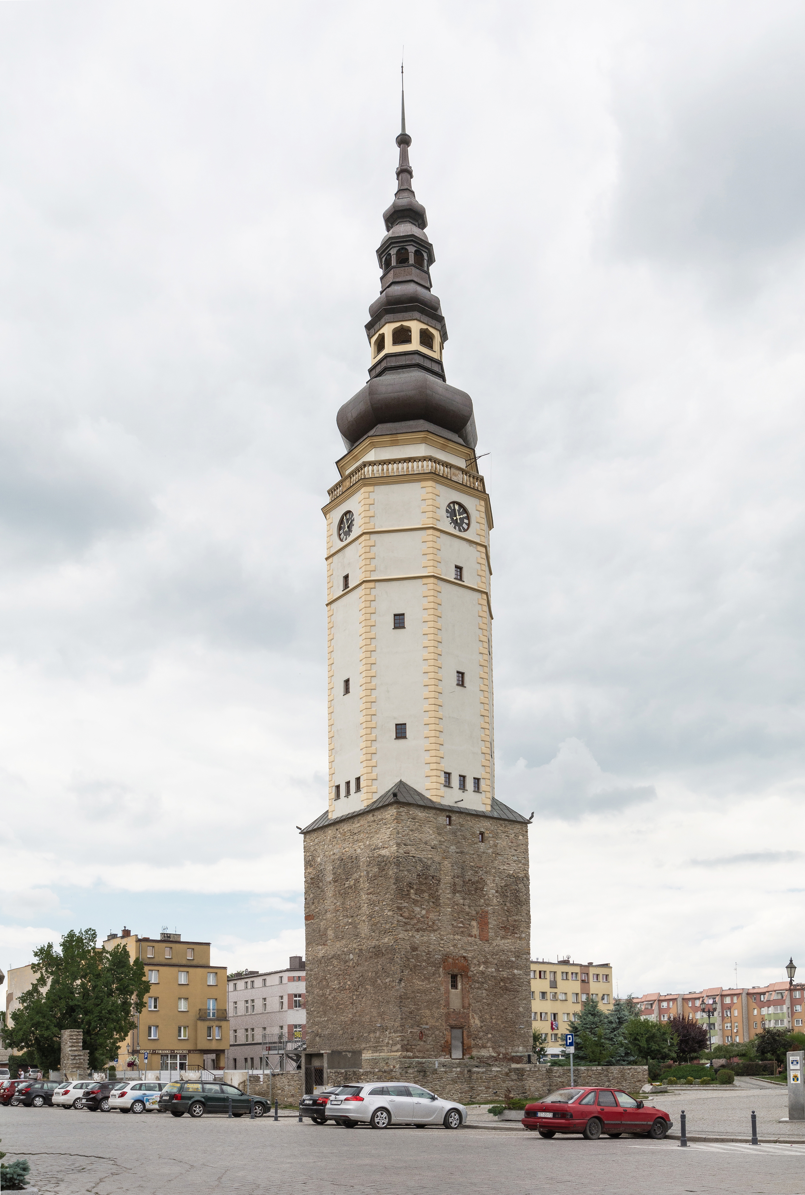 Town Hall Tower in Strzelin